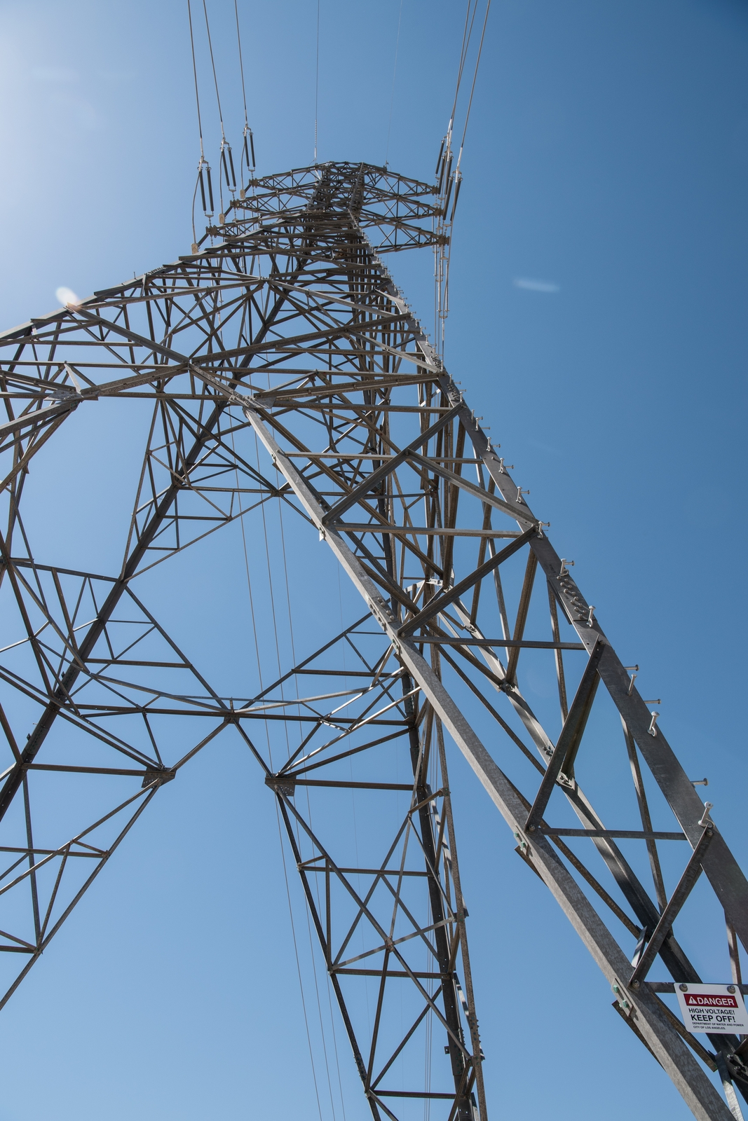 April 26 , 2018 - Members of NREL, LADWP and the 100% Renewable Energy Advisory Group review the progression of transmission lines and switching stations during a tour of the Barren Ridge Switching Station (California). The tour was part of an overview and chance to exchange information as part of NREL's 100% Renewable Energy Study. (Photo by Dennis Schroeder / NREL)